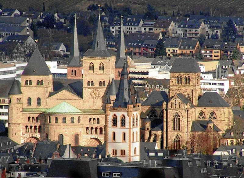 Trier cathedral, St. Gangolf and Liebfrauenkirche, view from Mariensäule